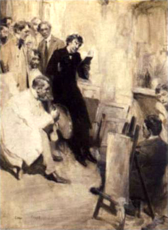 James Abbot McNeill Whistler in his studio by Cyrus Cuneo (title at Christie's, 2004). Pencil and monochrome wash drawing, 394 x 292mm, signed lower left corner Cyrus Cuneo, whole-length, seated, holding book in left hand, gesturing with right, with moustache and monocle, reading from The Gentle Art of Making Enemies in Académie Carmen, surrounded by art students, canvases and painting equipment; untraced. An illustration for Whistler's Academy of Painting : Some Parisian Recollections by Cyrus Cuneo, Pall Mall Magazine Vol. XXXVIII, pages 531-540, November 1906, No. 163 (one of seven illustrations.) Illustration page 539